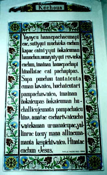 Church of the Paternoster, Jerusalem: the Lord's Prayer in Quechua language